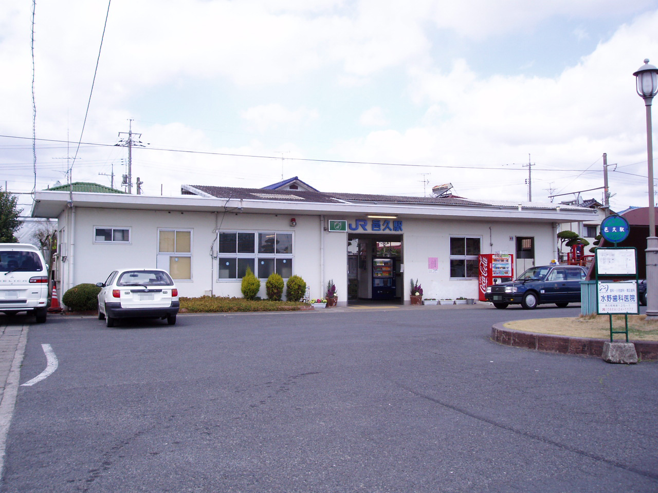 West Japan Railway Ako Line Oku Station Station Building